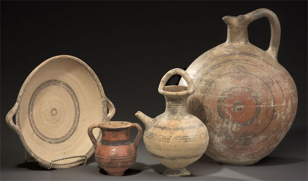 An image of extremely rare items from the National Hellenic Museum's collection. These clay/terracotta pots and plates are from roughly 800 BCE.